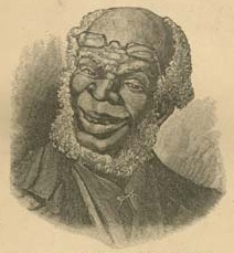 Cropped image from the title page of Uncle Remus, His Songs and His Sayings: The Folk-Lore of the Old Plantation, by Joel Chandler Harris. Illustrations by Frederick S. Church and James H. Moser. New York: D. Appleton and Company, 1881.